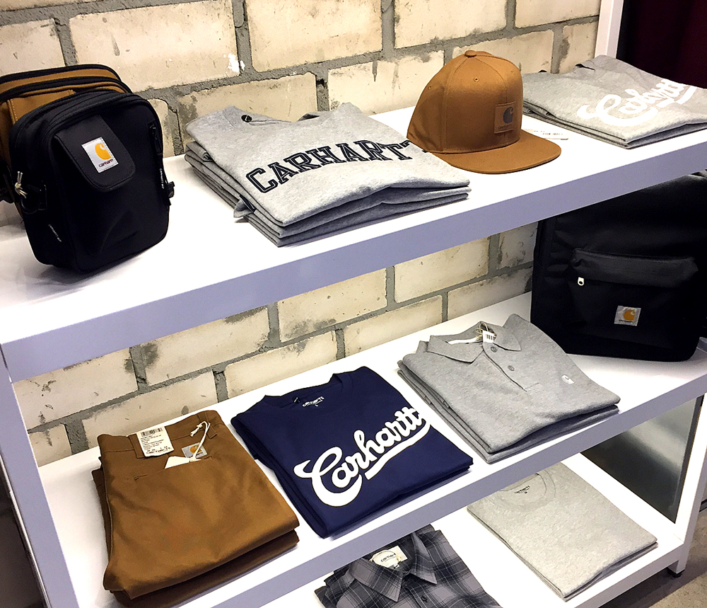 Carhartt clothing in the Carhartt store in Schanzenviertel in Hamburg